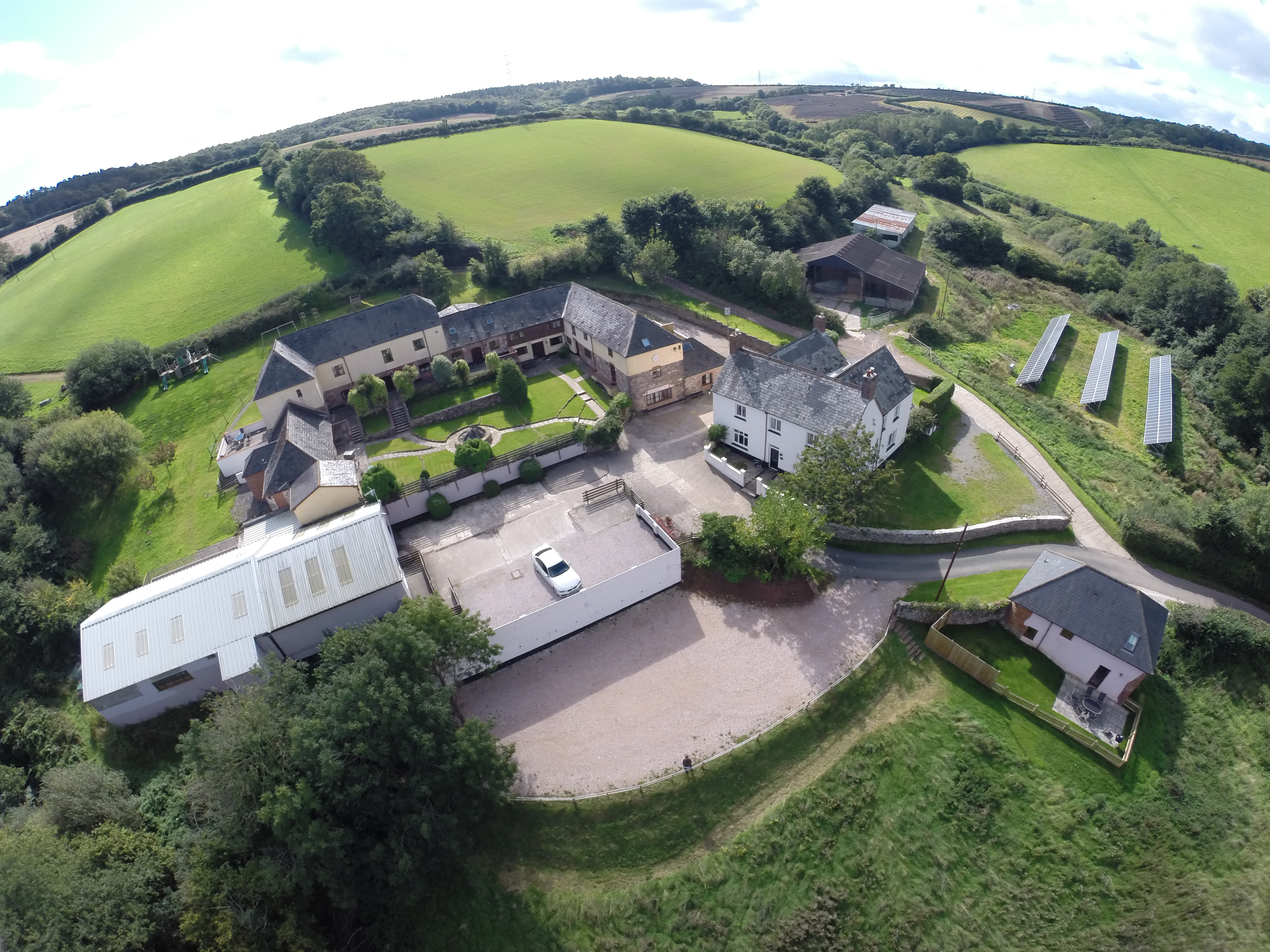 Ashcombe Country Cottages Woodhouse Farm complex